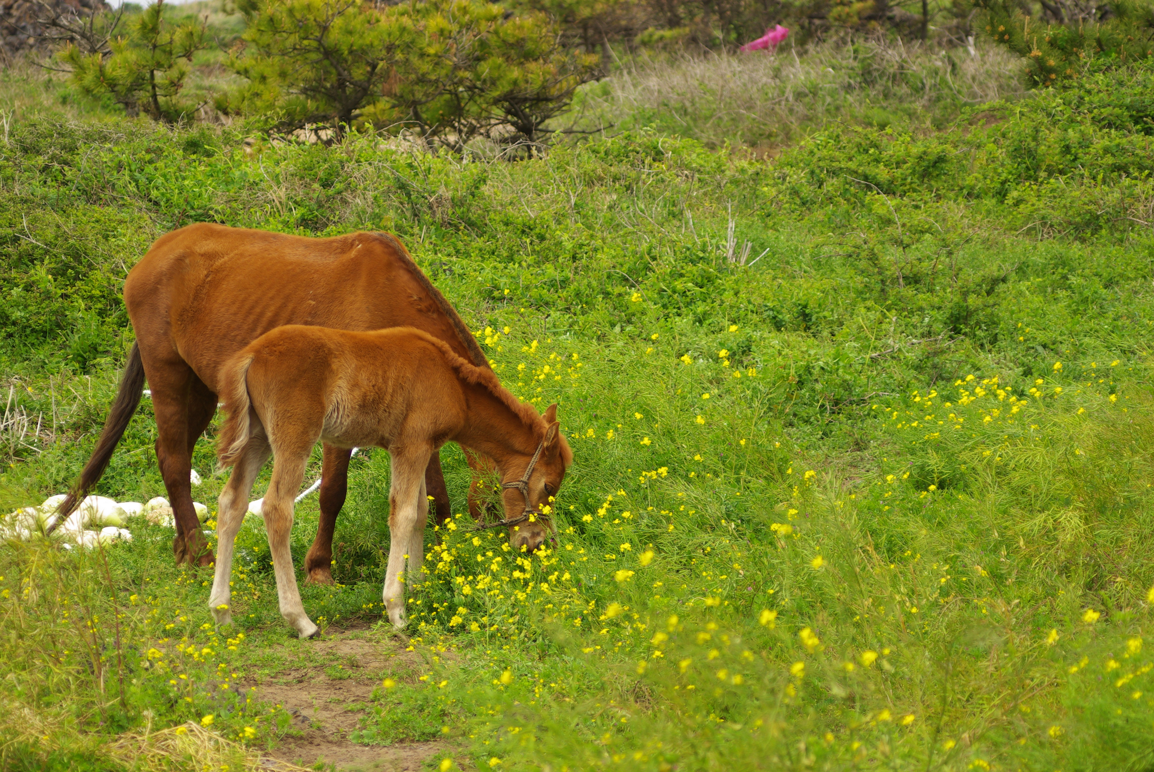 horses